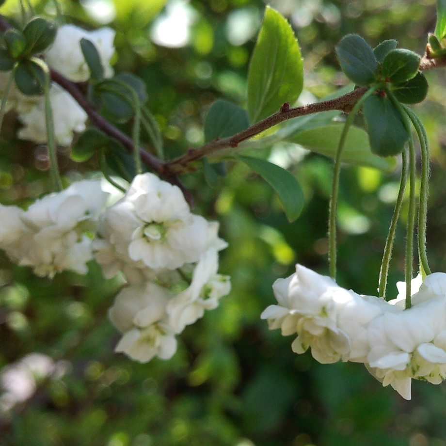 Spiraea prunifolia